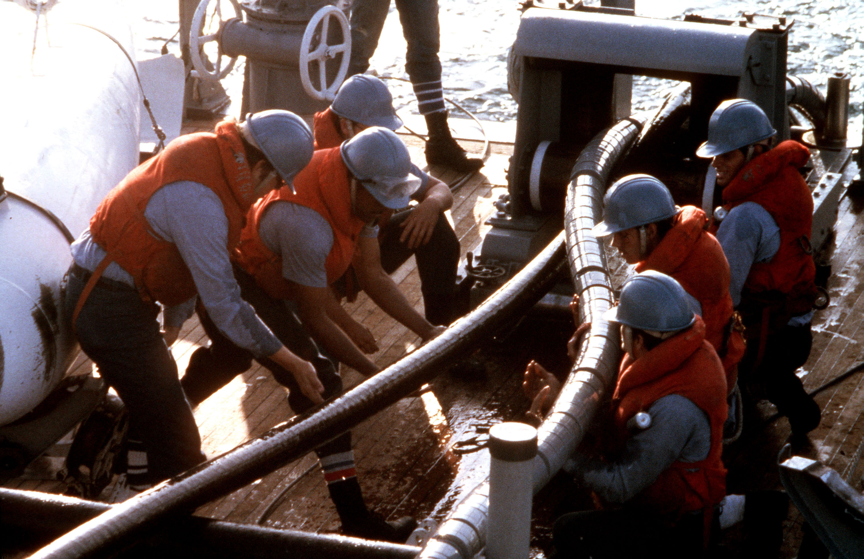 Crewmen handle electrical cables, or "mag-tail," during sweeping exercises aboard the ocean minesweeper USS CONSTANT (MSO 427). The cables, used to simulate the magnetic pull of a vessel, are towed behind the ship to attract magnetic mines. The ship is as